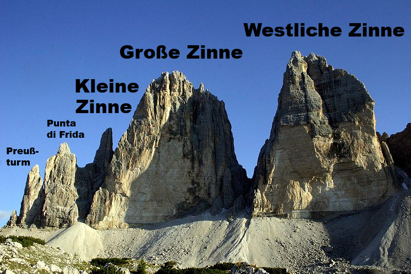 Drei Zinnen (ital. Tre Cime di Lavaredo) seen from NW